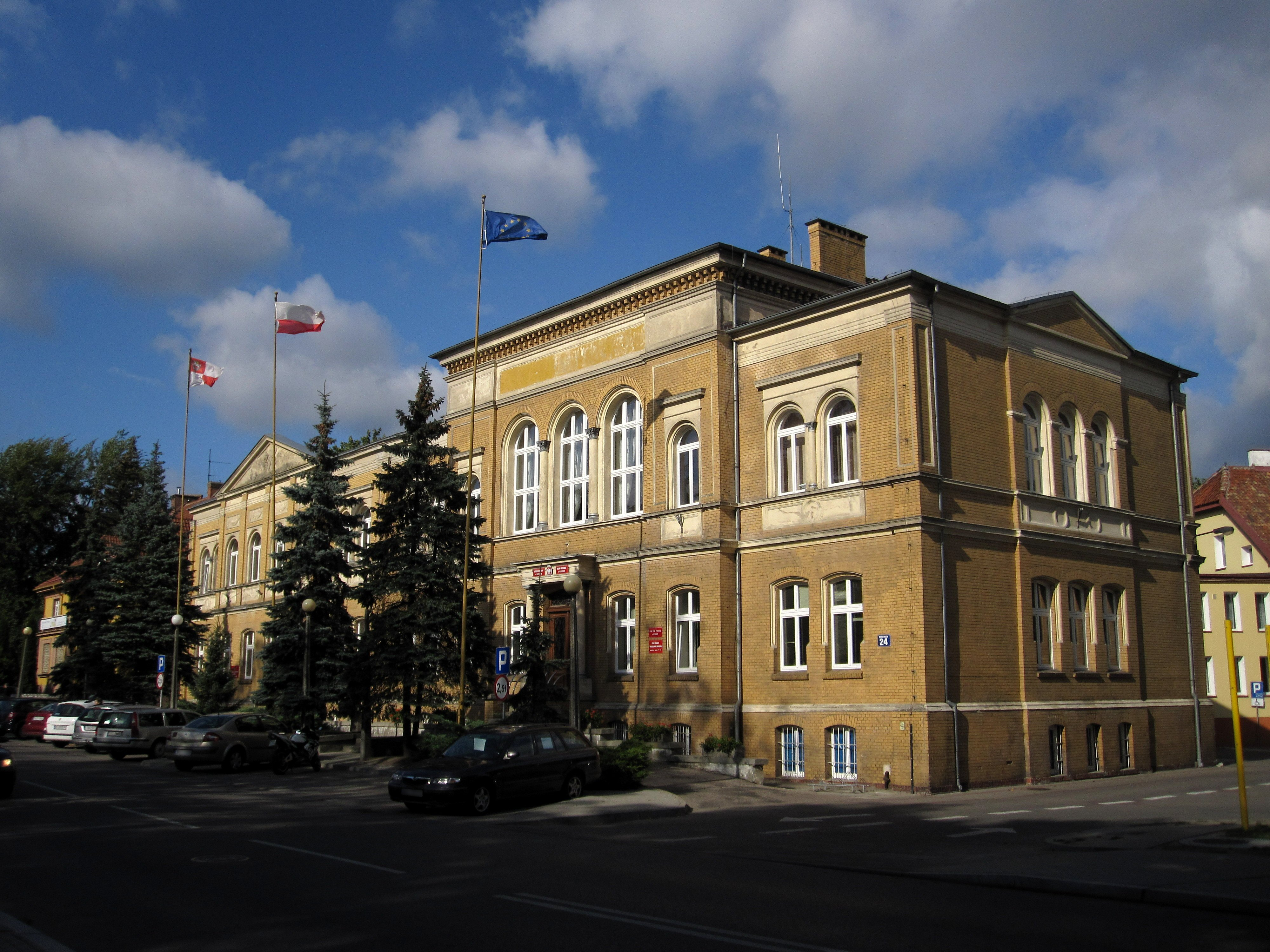 Ostróda - City Hall, Registry Office, Municipal Police